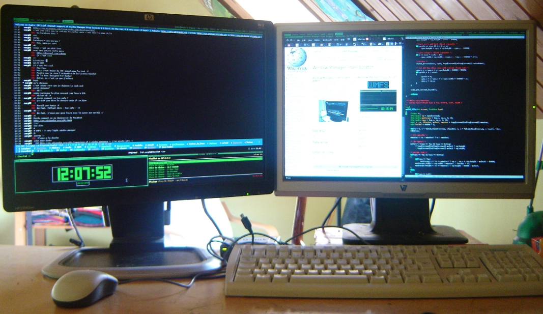 Description WMFS working on dual screen.Date 28 March 2009Source I created this work entirely by myself.Author Martin Duquesnoy WMFS working on dual screen.